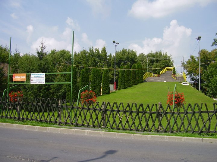 This is only one ski run in this form in whole Hungary. It is behind the stadium